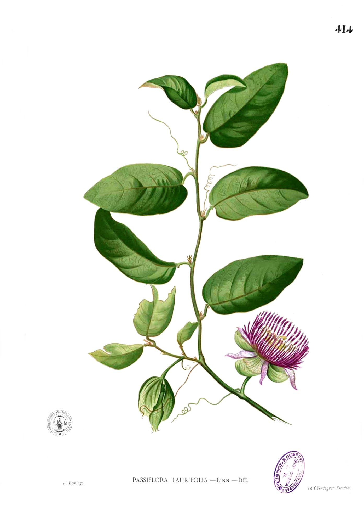 Plate from book